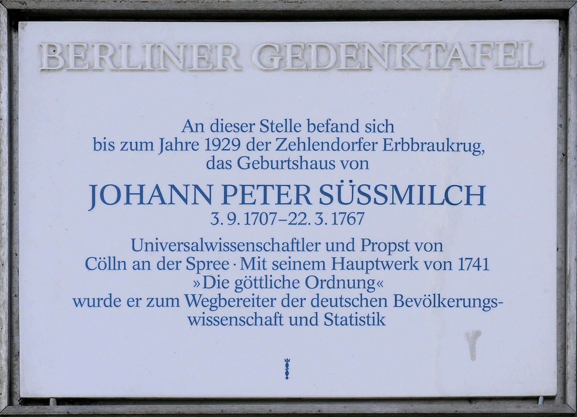 Berlin memorial plaque, Johann Peter Süssmilch, Berliner Straße 2, Berlin-Zehlendorf, Germany Koordinate:52°26′5.5″N 13°15′38.4″E / 52.434861°N 13.260667°E